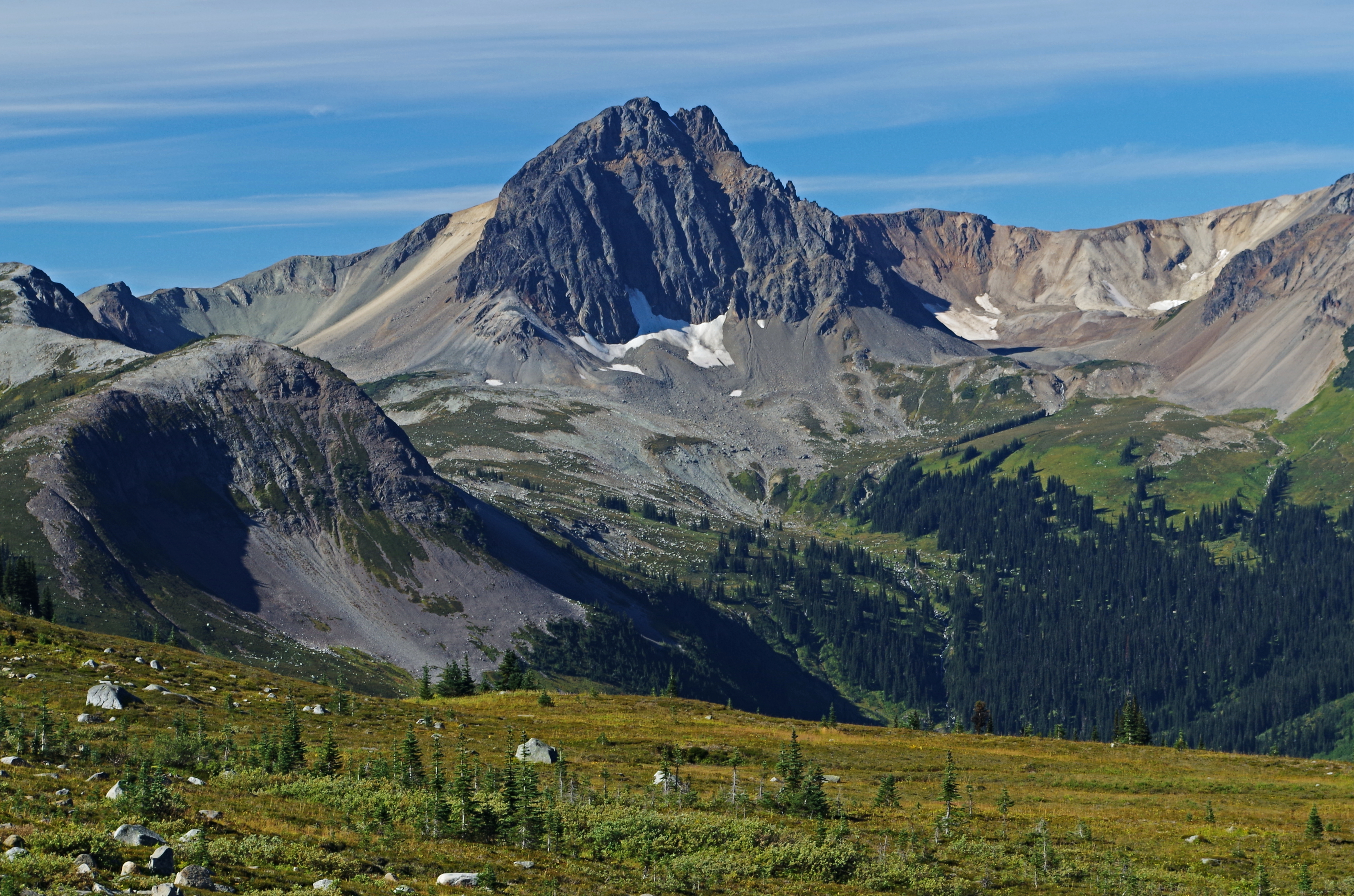 Chipmunk Peak